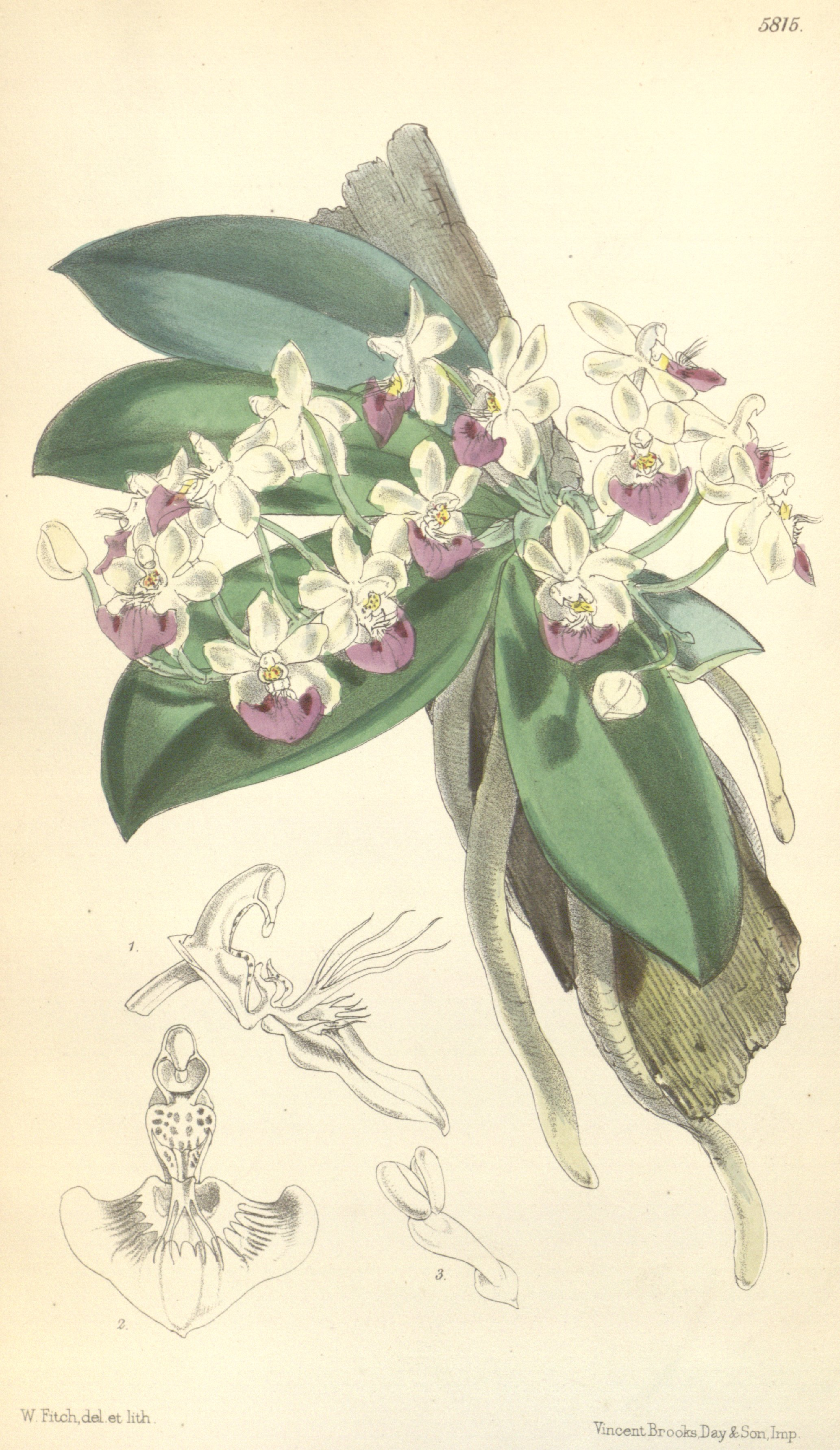 Illustration of Phalaenopsis parishii